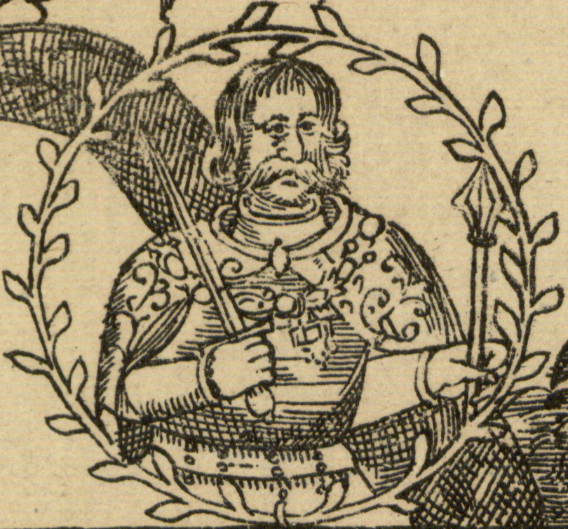 Genealogical tree families: Tarnowski, Melsztyński and Jarosławski. Augustinus Thille (copperplate 1644), text Wojciech Kazimierz Jastrzębski vel Albert Casimirus Jastrzębski; reprint Adam Piliński (homeography per copperplate, Paris, 1872) - fragment Spytek of Melsztyn († 1399)